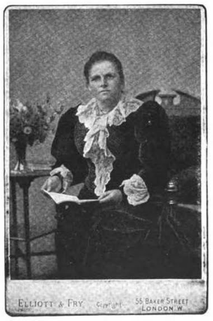 Florence Balgarnie (19 August 1856 – 25 March 1928) was a British suffragette, speaker, pacifist, feminist, and temperance activist. CAPTION UNDER PHOTO: (Photo: Elliott and Fry. Baker Street, London W)